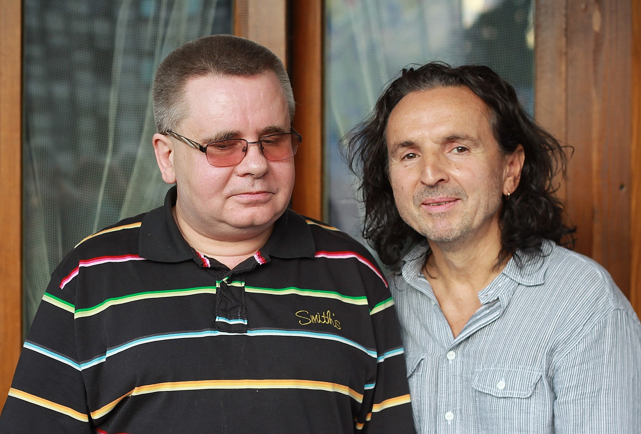 Apostolis Anthimos & Janusz Skowron